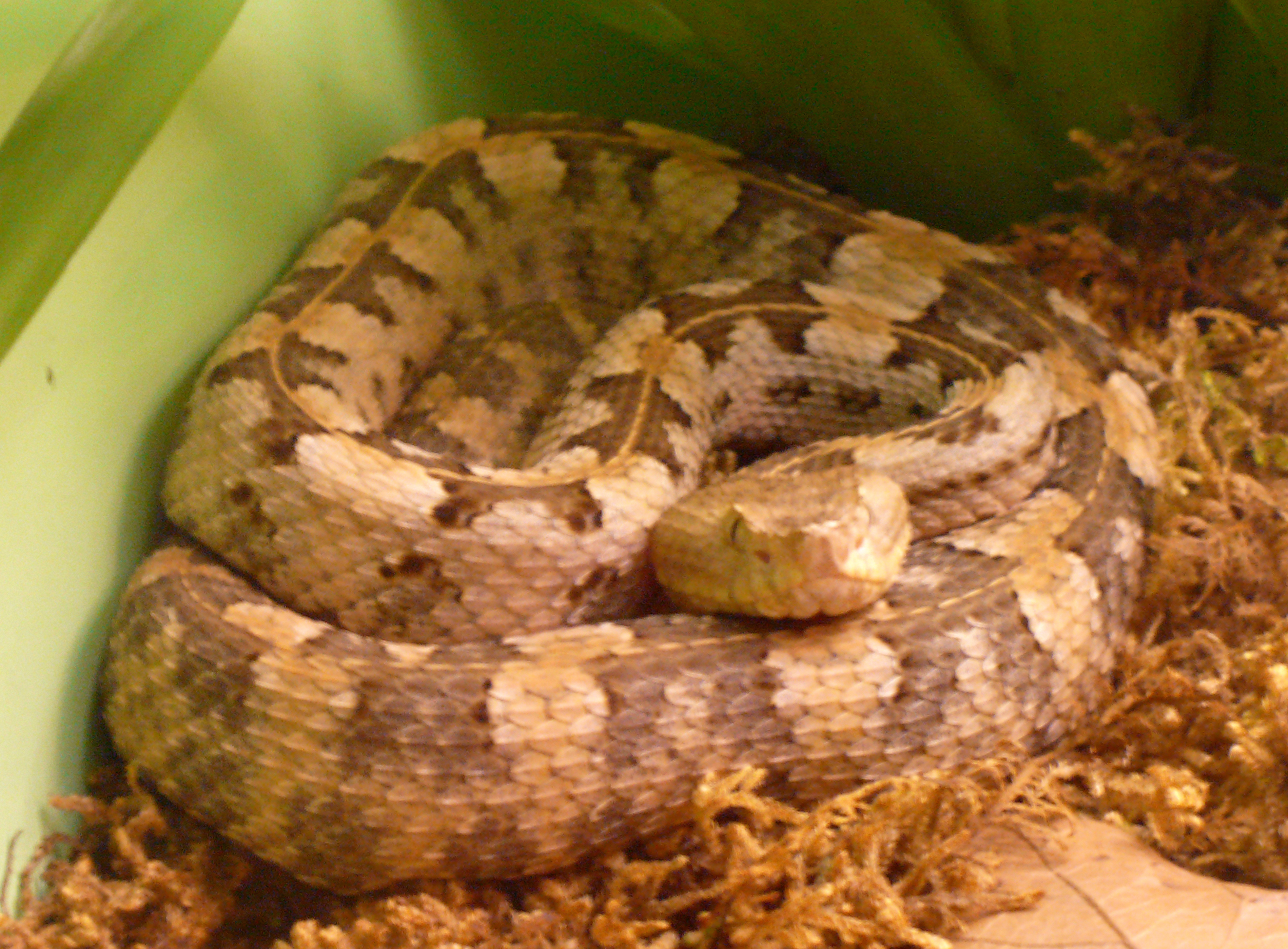 Dunn's hognosed pitviper (Porthidium dunni)